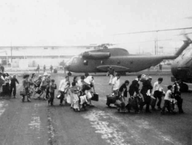 Vietnamese refugees board a U.S. Marine Corps Sikorsky CH-53 Sea Stallion helicopter from HMH-463 at Landing Zone 39, a parking lot At Ton Son Nhut Air Base in Saigon, Vietnam, 29 April 1975.